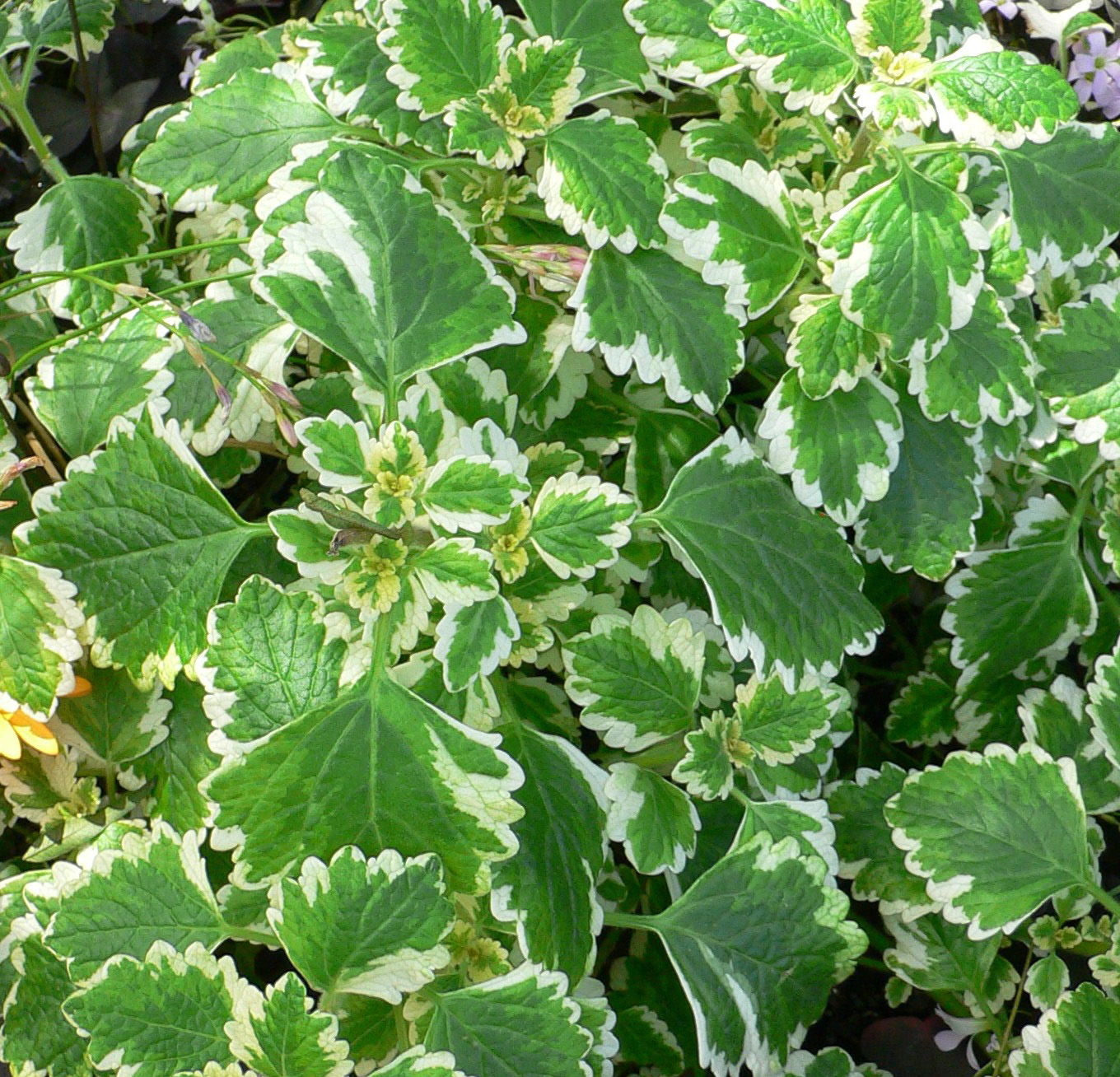 Pictures taken by myself at Longwood Gardens